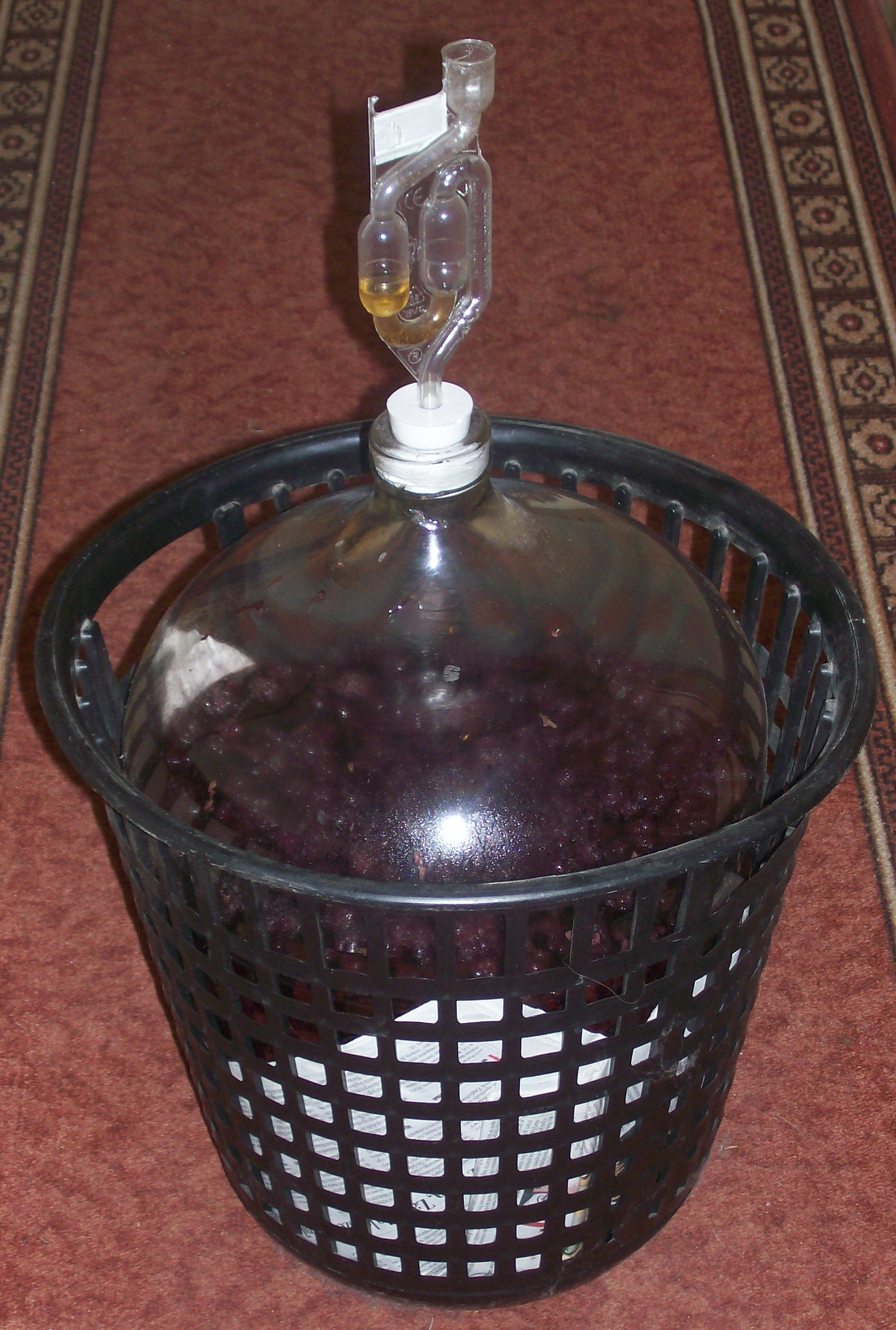 description:Gąsior do wyrobu wina, author:Ewkaa